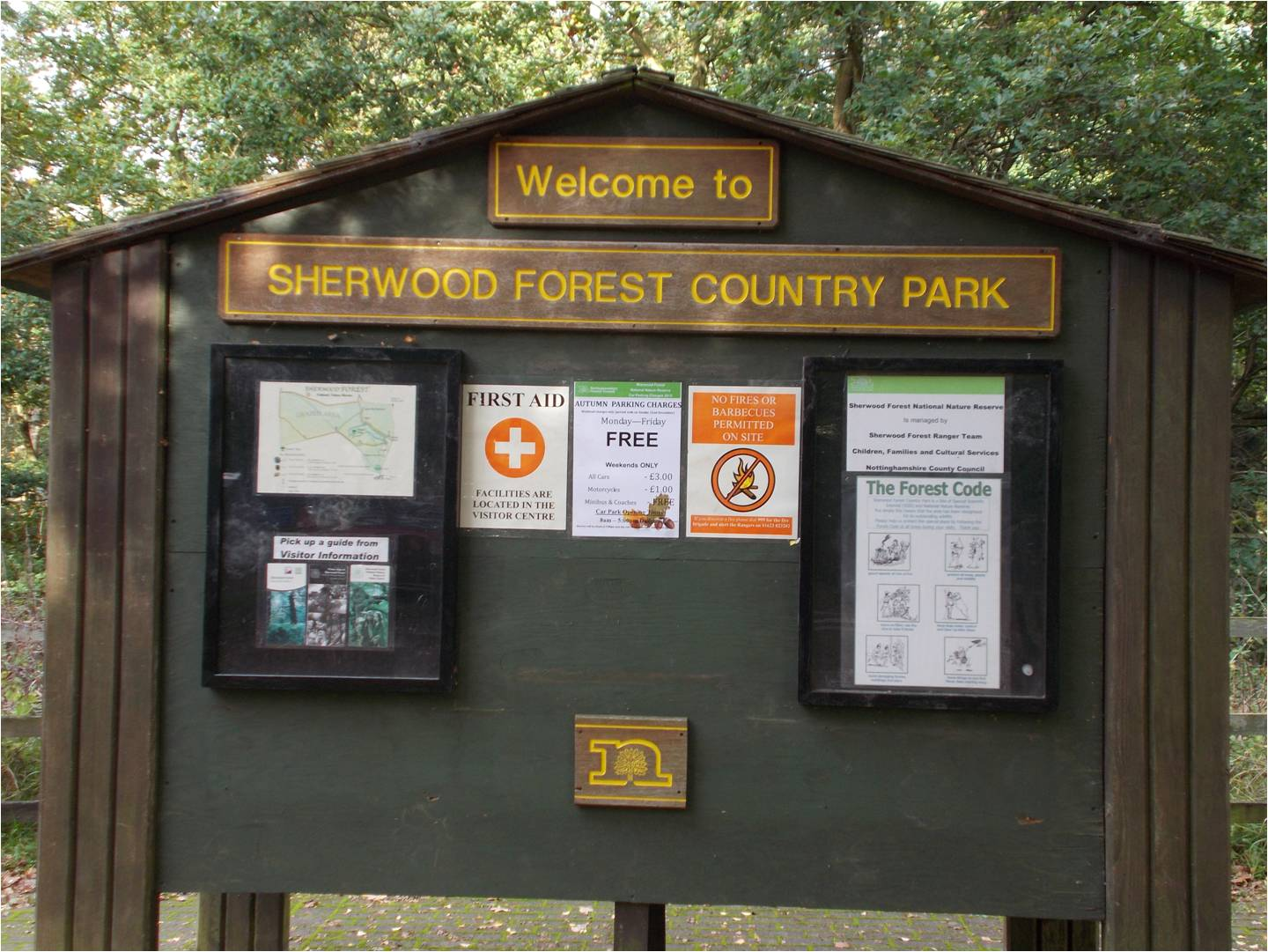 Welcome Signs at the entrance to the forest